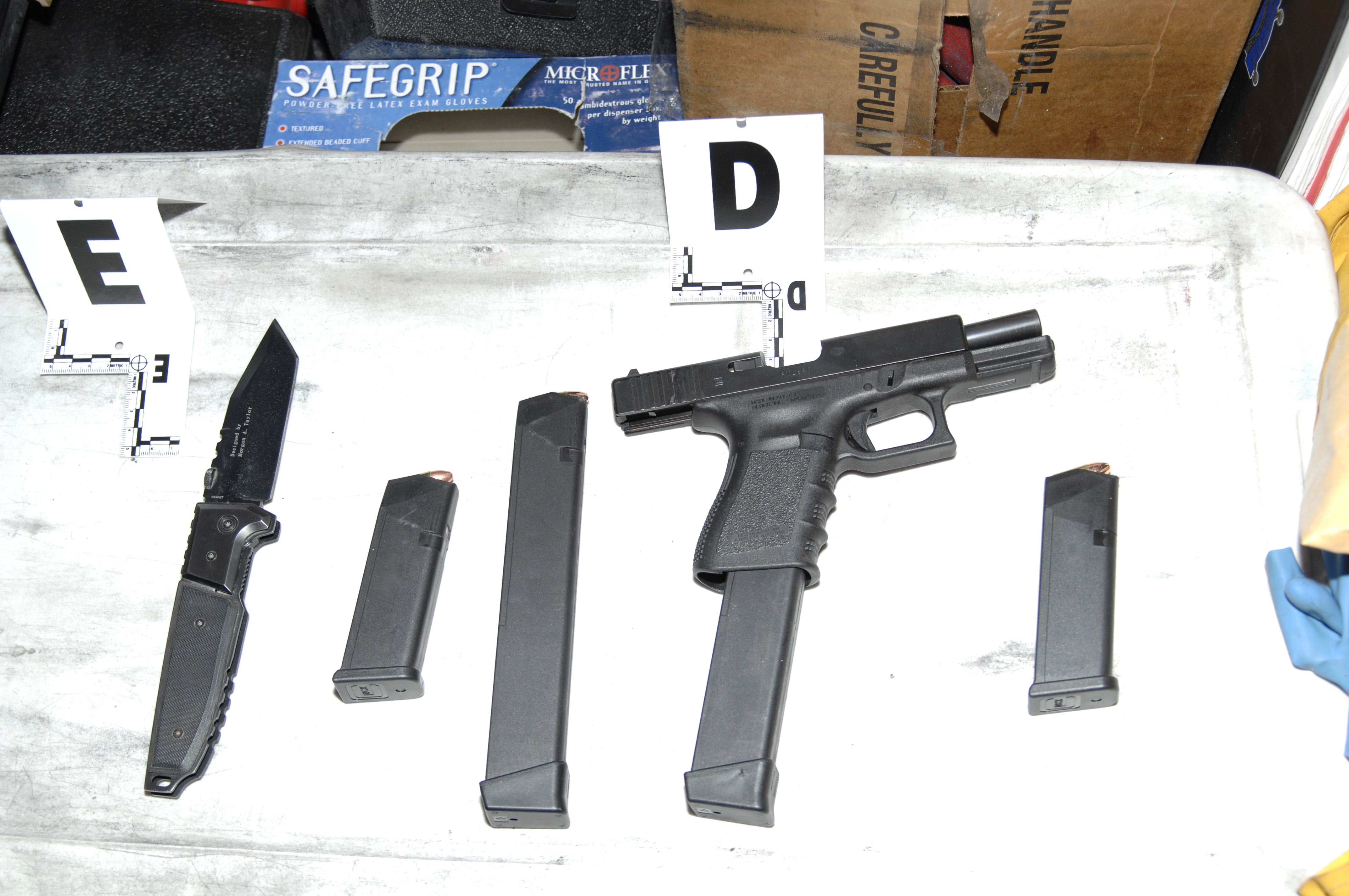 Weapons recovered by the Federal Bureau of Investigation from the perpetrator of the 2011 Tucson, Arizona shooting